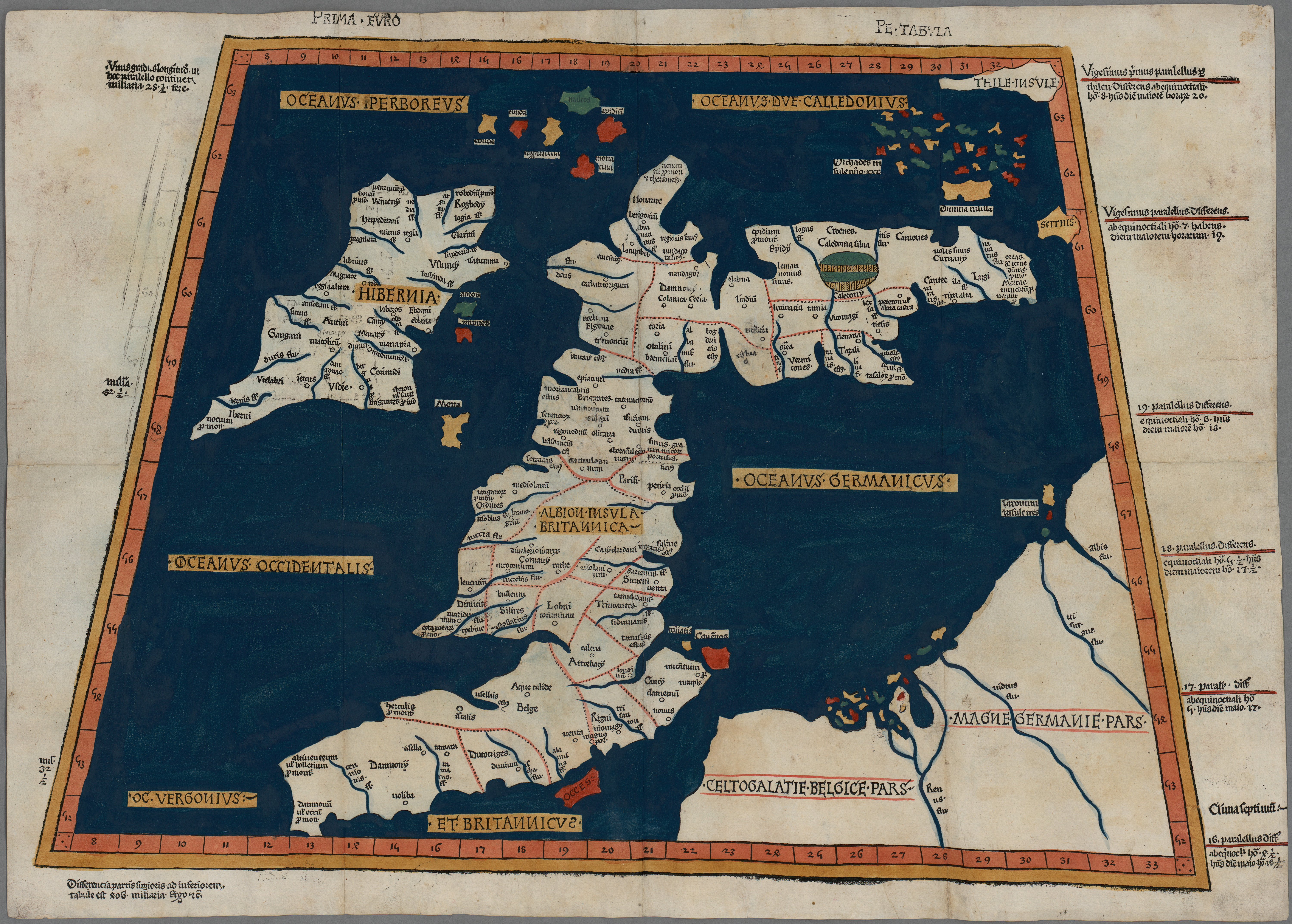 One of the earliest surviving copies of Ptolemy's 2nd century map of the British Isles. Originally published in Ptolemy's Geographia. This is the second issue of the 1482 map, also printed at Ulm, which was the first woodcut map of the British Isles and the first to be printed outside Italy.